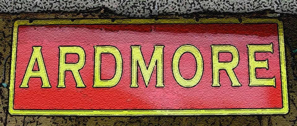 Pennsylvania Railroad Ardmore, PA, station sign.